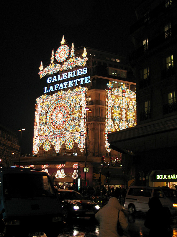 Galeries Lafayette department store, Christmas 2004, Paris, France.